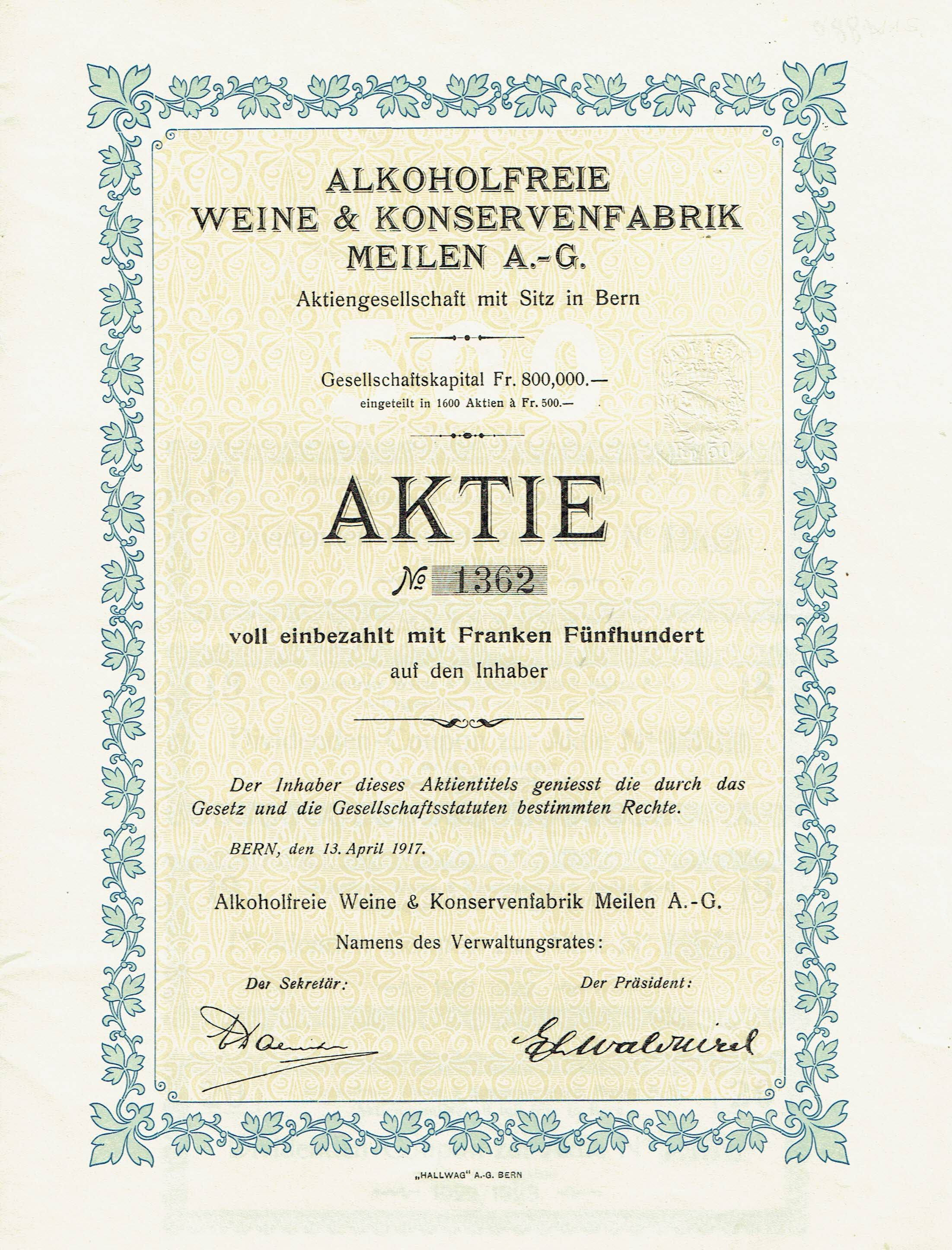 Share of the Alkoholfreie Weine & Konservenfabrik Meilen AG, issued 13. April 1917